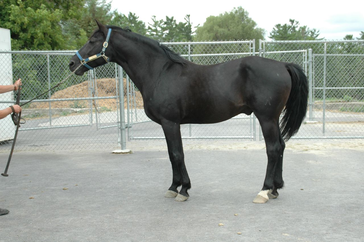 Hannoverian Stallion from RCMP Farm